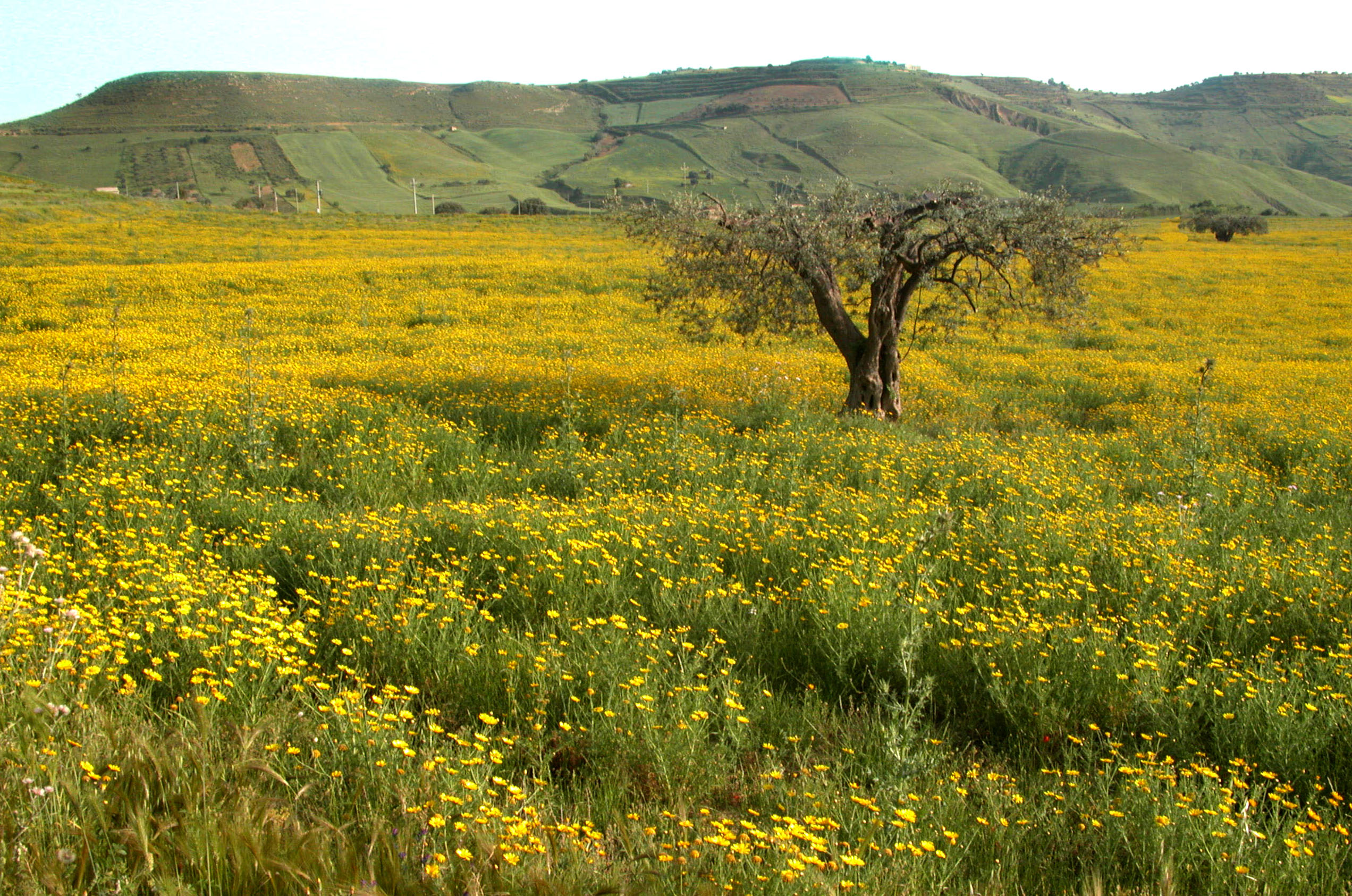 The Sicilian countryside near Caltagirone.